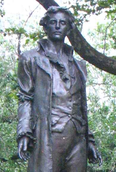 Statue of Nathan Hale in New York City's City Hall Park. Nathan Hale was an officer for the Continental Army during the American Revolutionary War. Widely considered America's first spy, he volunteered for an intelligence-gathering mission, but was caught by the British and hanged.